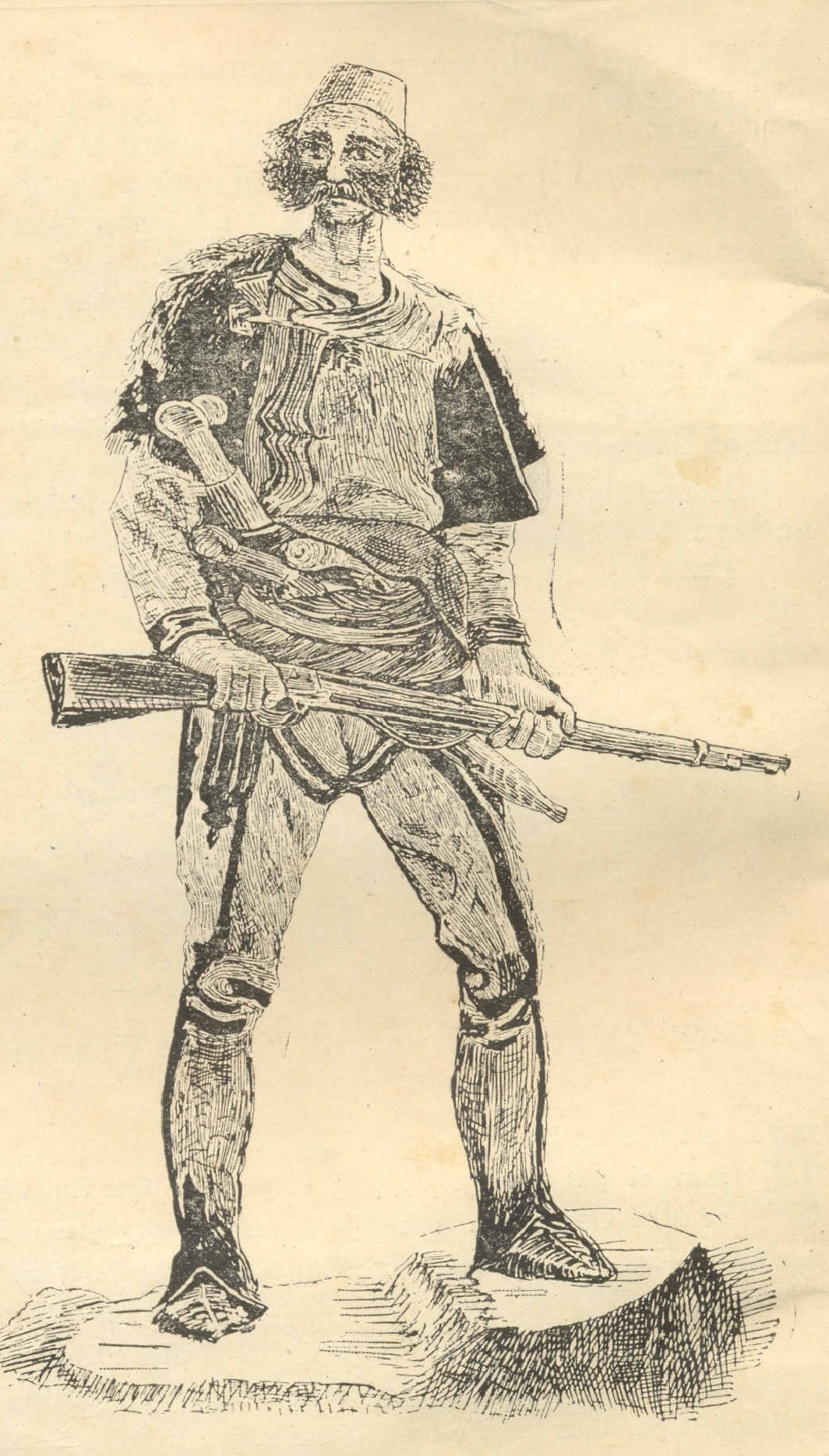 Oso Kuka (c. 1820-1862) was an Ottoman-Albanian border guard, and nationalist symbol.